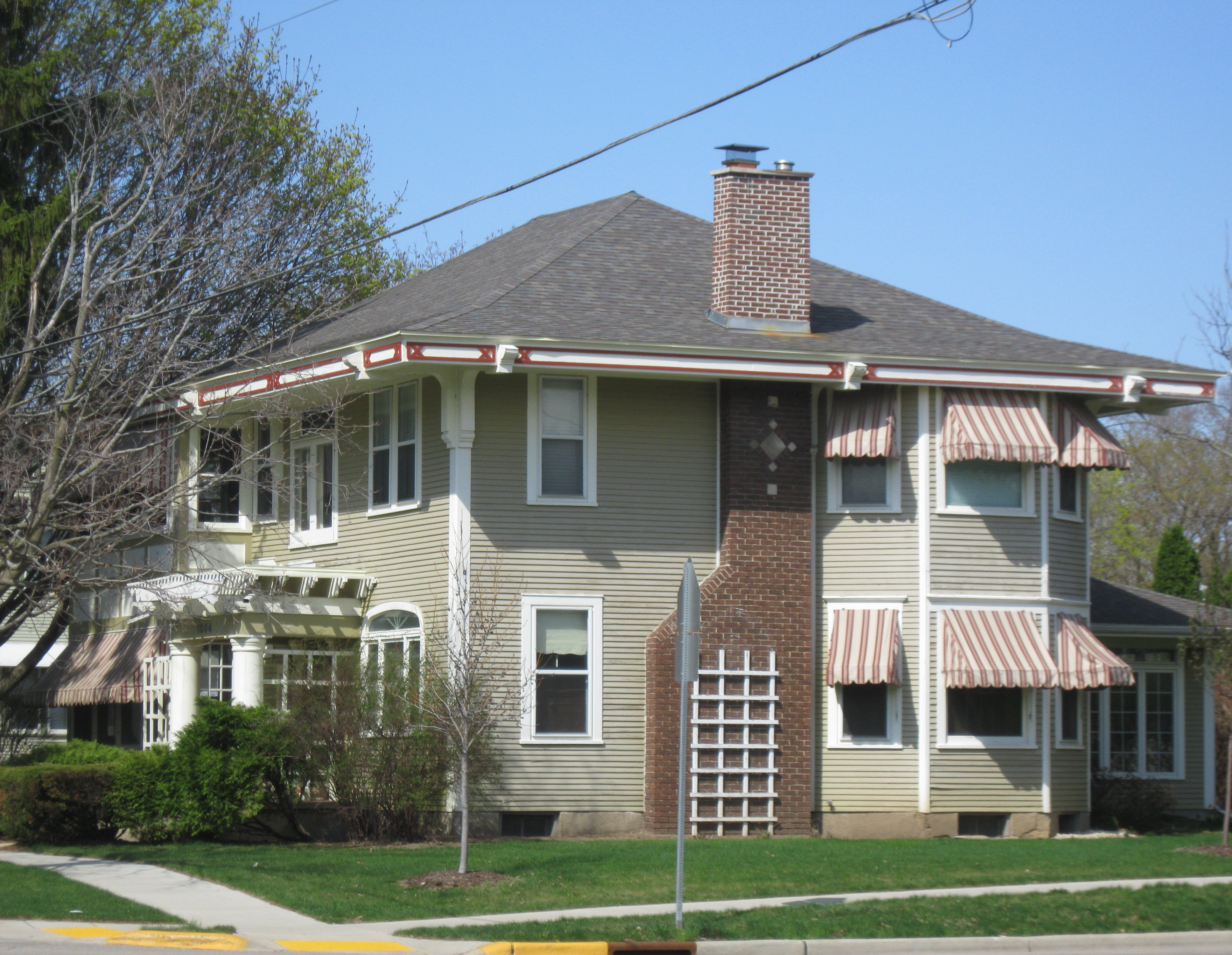 House at 1004 East Main Street in the East Side Historic District in Stoughton, Wisconsin.